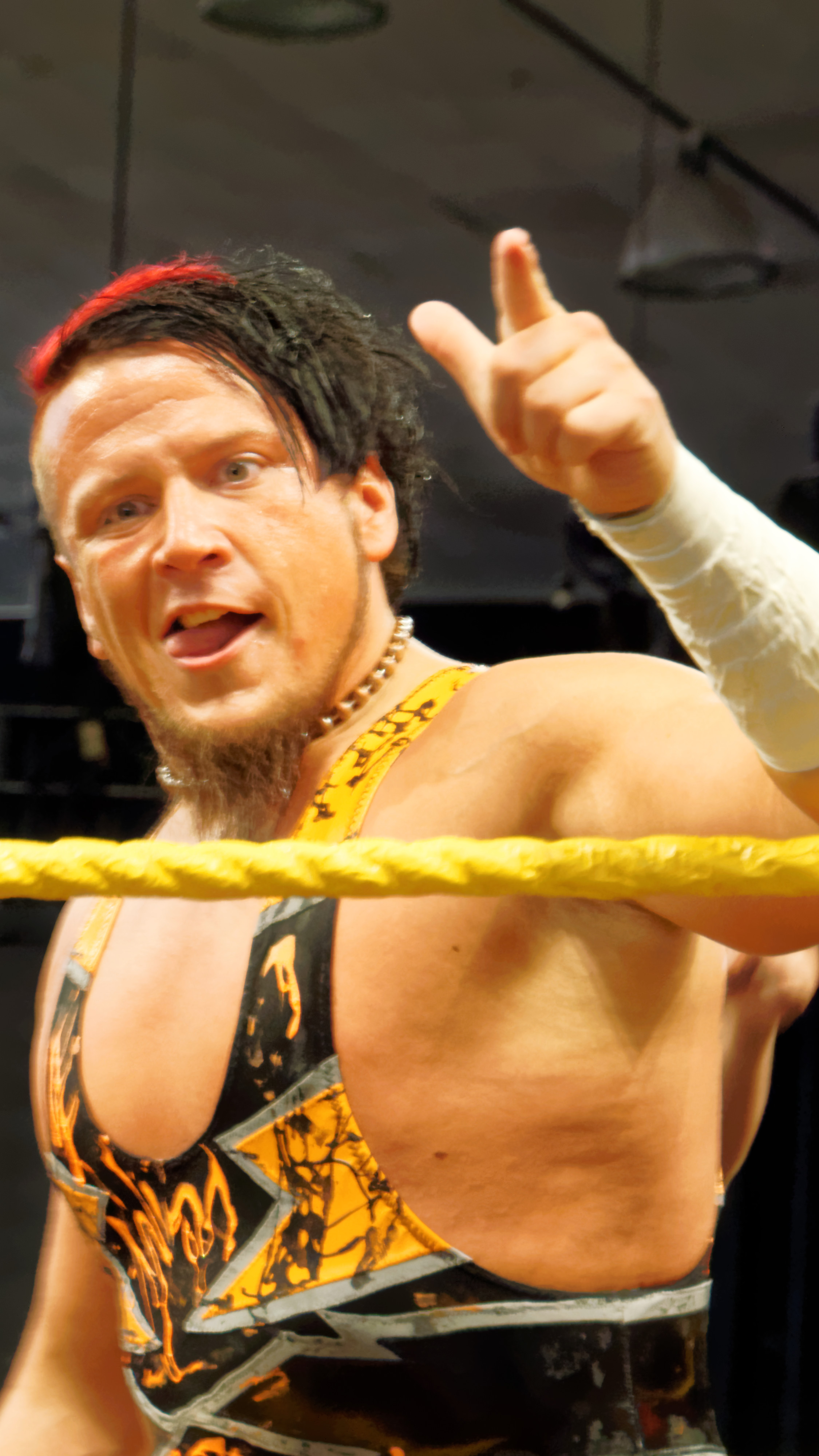 Solomon Crowe at WrestleMania 31 Axxess in March 2015.